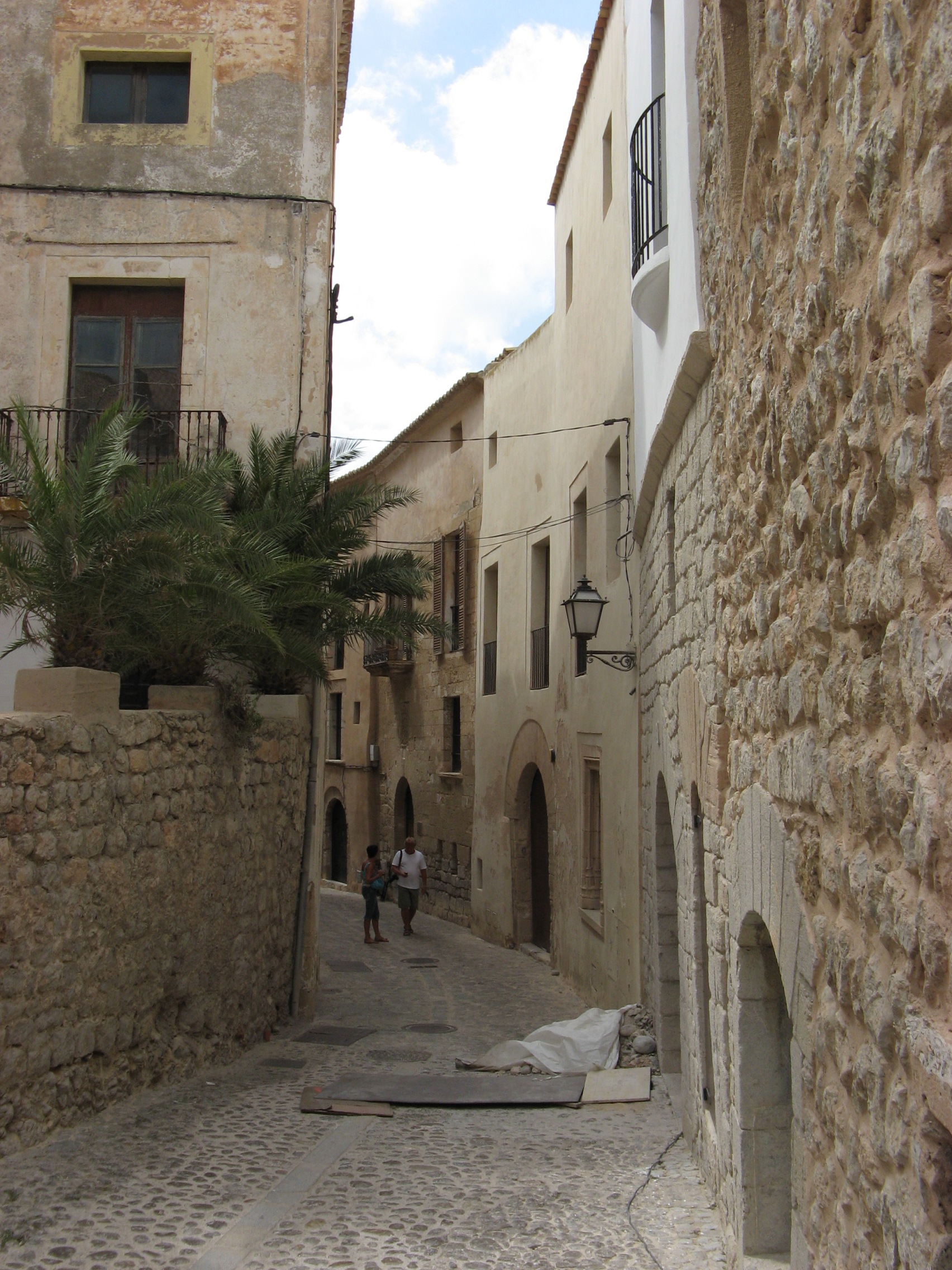 A valley in the old town of Eivissa, Ibiza.